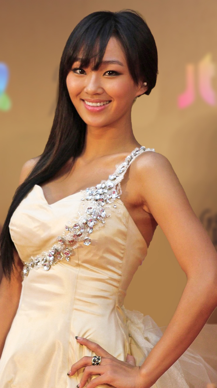 Hyolyn at Golden Disk Awards Red Carpet